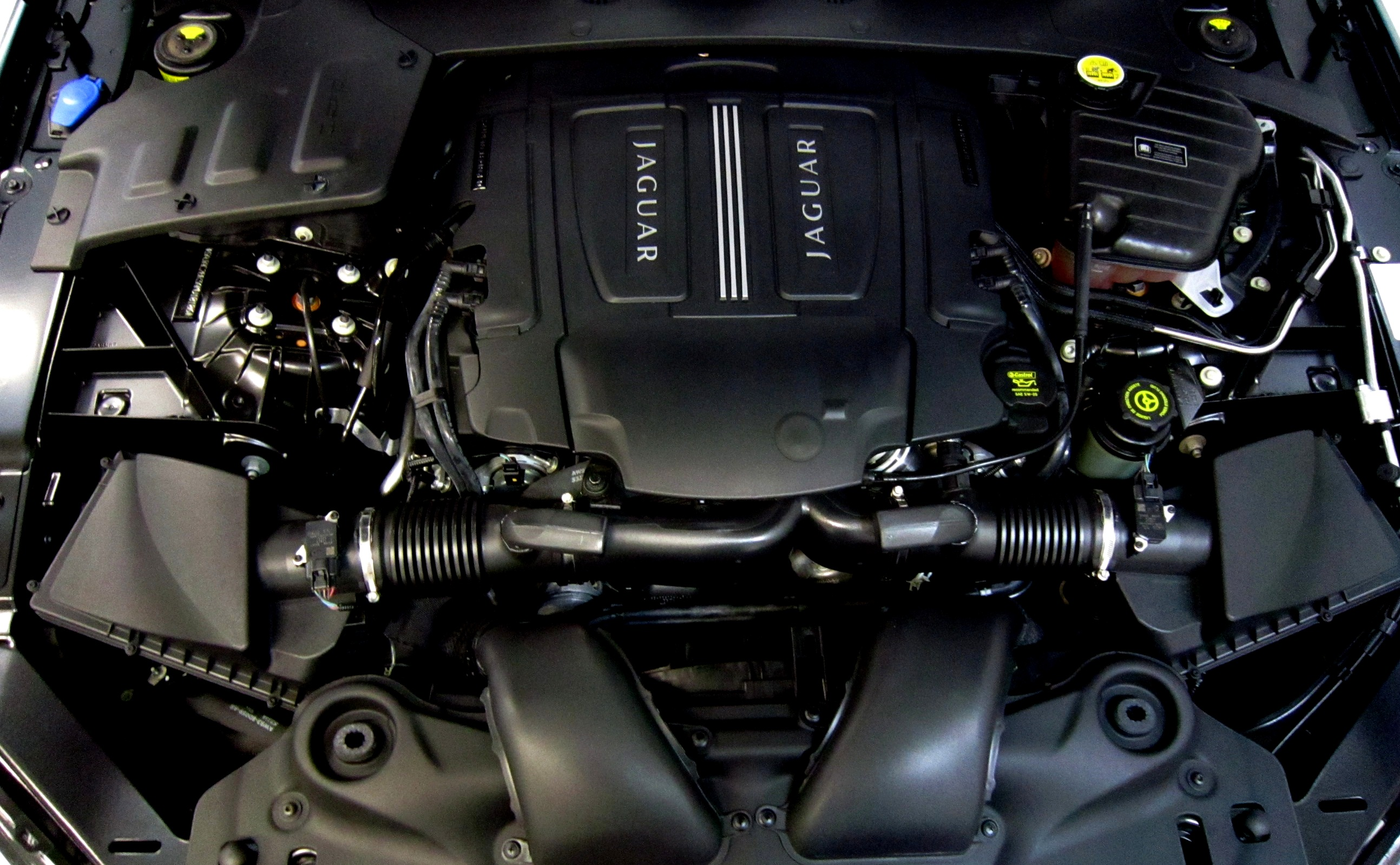 Jaguars acclaimed diesel and petrol engines are available for the XJ, by way of the 3.0lt V6 Diesel, 5.0lt n/a engine, and supercharged 5.0lt - pictured here - producing 346 Kw. You can check out the full review of the Jaguar XJ Supersport here at; NRMA Drivers Seat